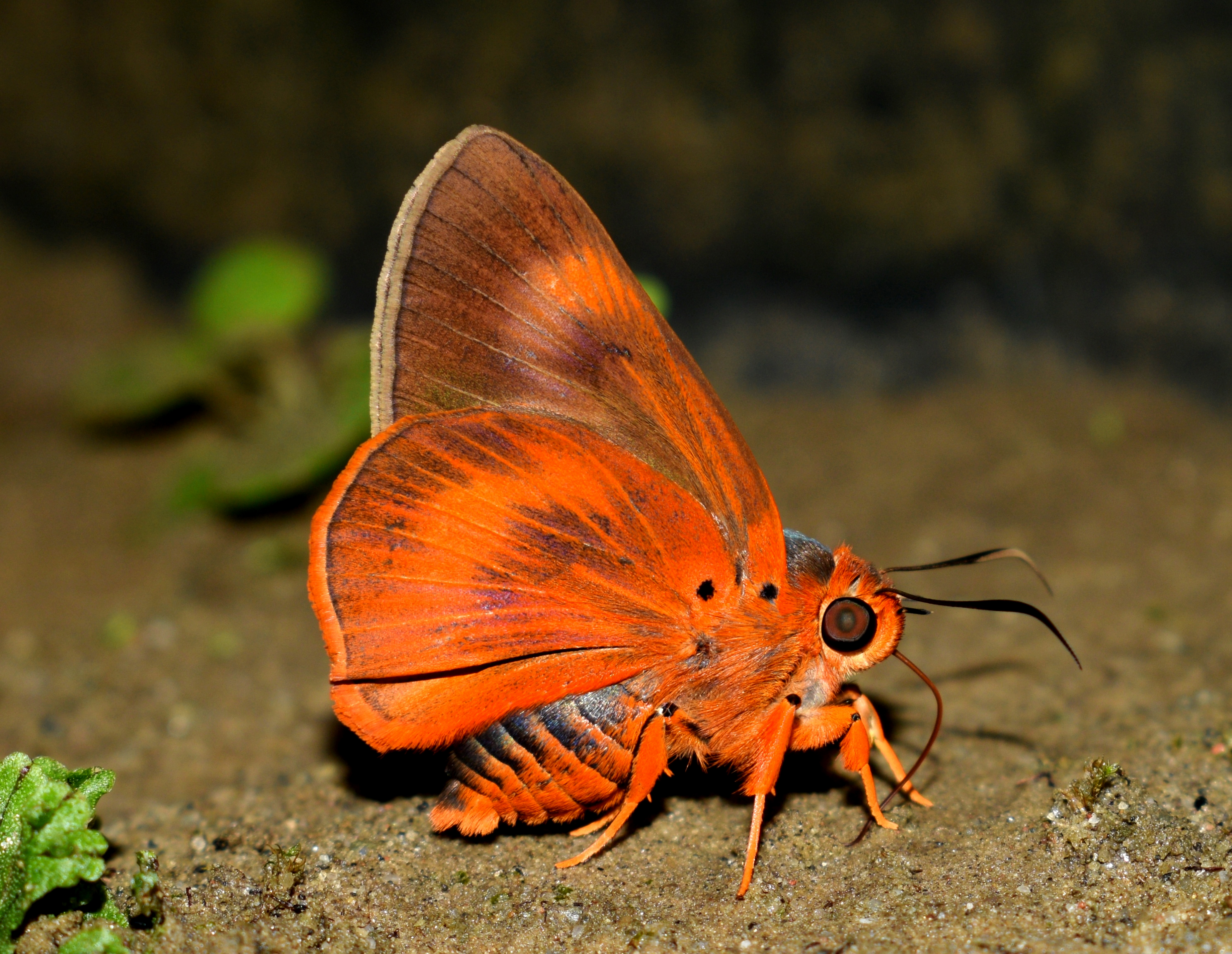 Close wing position of Burara oedipodea Swainson, 1820 – Branded Orange Awlet. Subspecies: Burara oedipodea belesis Mabille, 1876 – Himalayan Branded Orange Awlet. This specimen has the wingspan of 40-50mm. This picture was taken in Pakke Tiger Reserve, Arunachal Pradesh.অসমীয়া: পাখি বন্ধ অৱস্থাত mud puddling কৰি থকা Branded Orange Awlet পখিলা । উপ-প্ৰজাতি Burara oedopodia belesis Mabille,1876- Himalayan Branded Orange Awlet